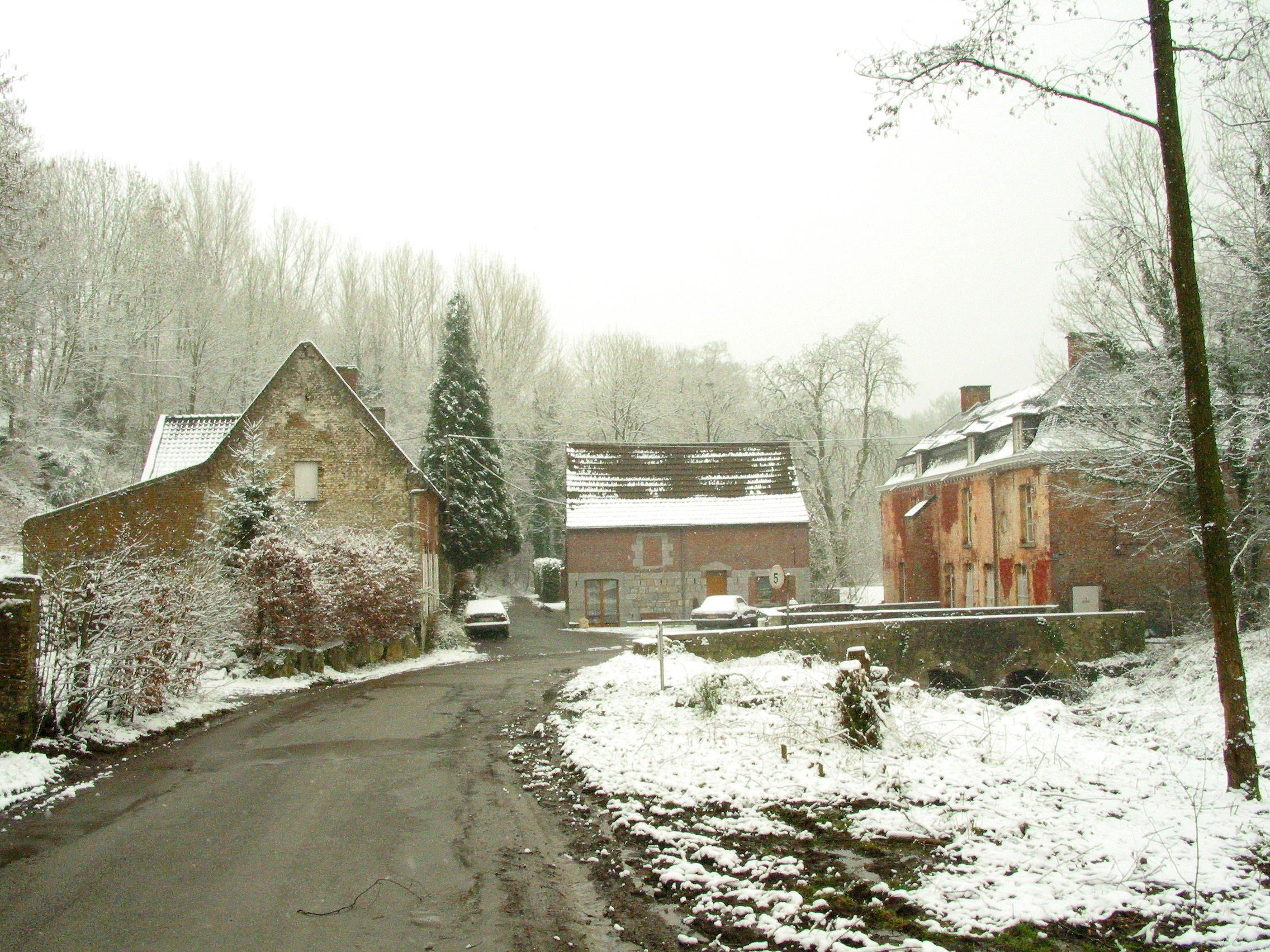 Casteau (Belgium), the previous watermill.